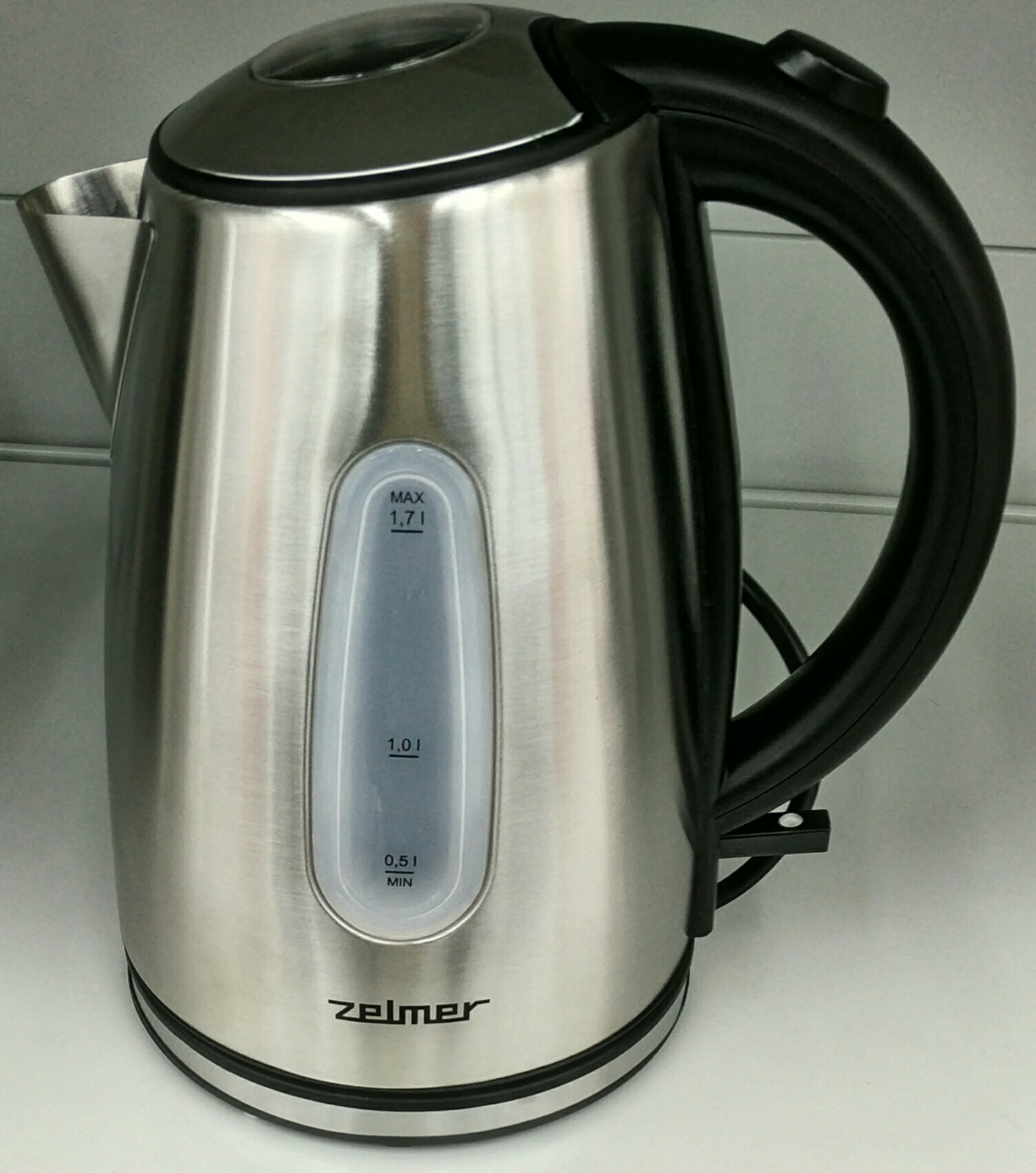 Zelmer Electric kettle in Poland